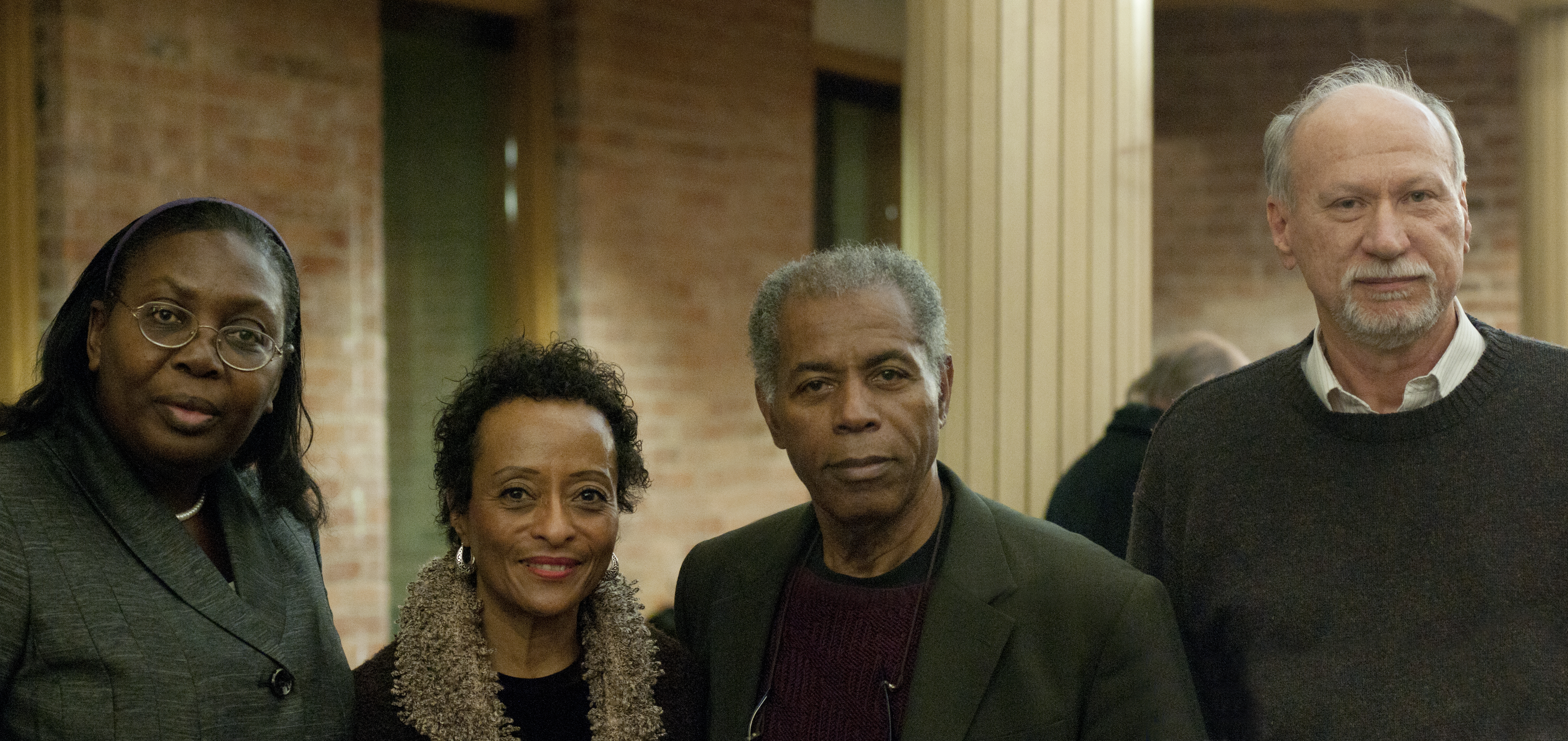 Photo by University of Michigan/Kevin Merrill Learn more about Environmental Justice at